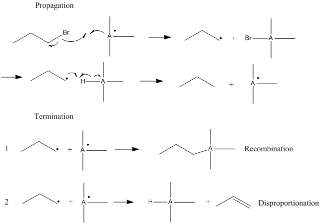 A radical chain reaction with two different termination steps is shown.